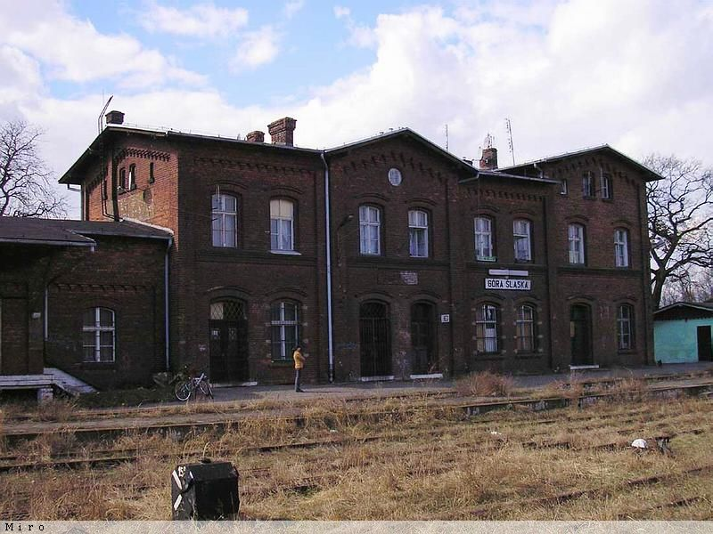 Góra, train station